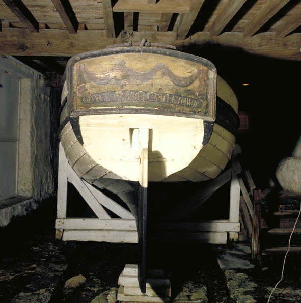 The yacht Peggy, 1791, in her boathouse in the Nautical Museum, Castletown, Isle of Man. Courtesy of Manx National Heritage.